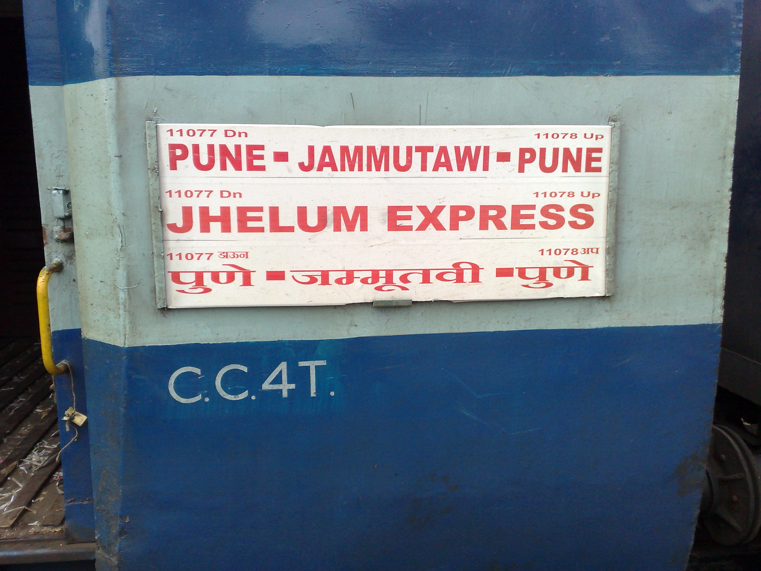 11077 Jhelum Express